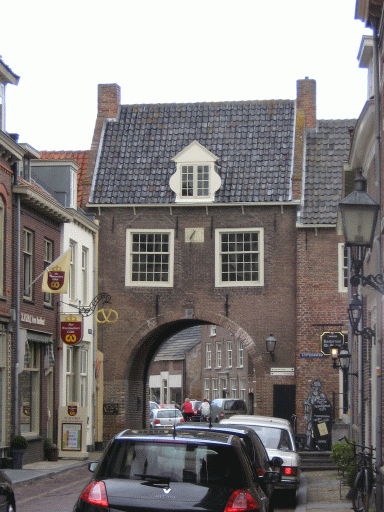 Citygate in Buren, Holland.